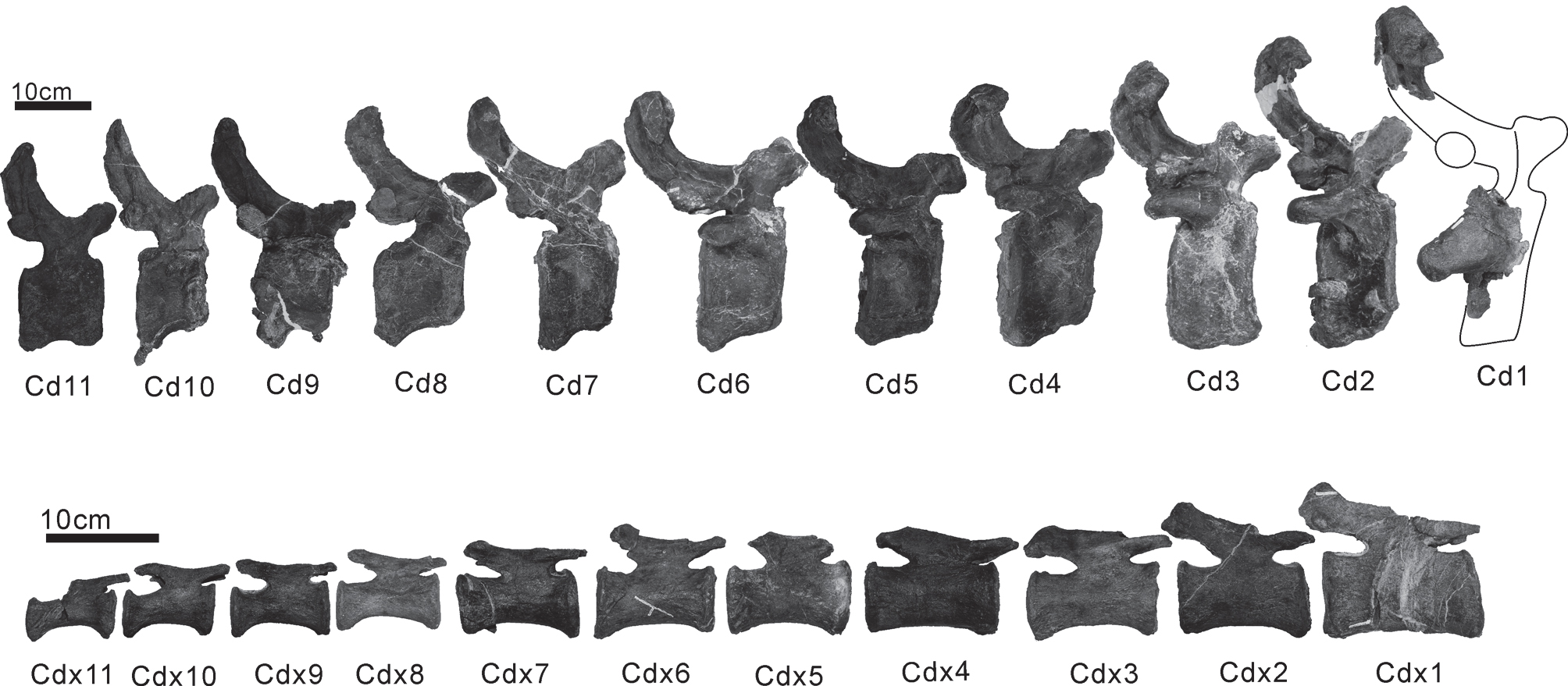 Tambatitanis amicitiae gen. et sp. nov., holotype (MNHAH D-1029280). A, Cd2–Cd11 in right lateral view. B, Cdx1–Cdx2 in right lateral view.